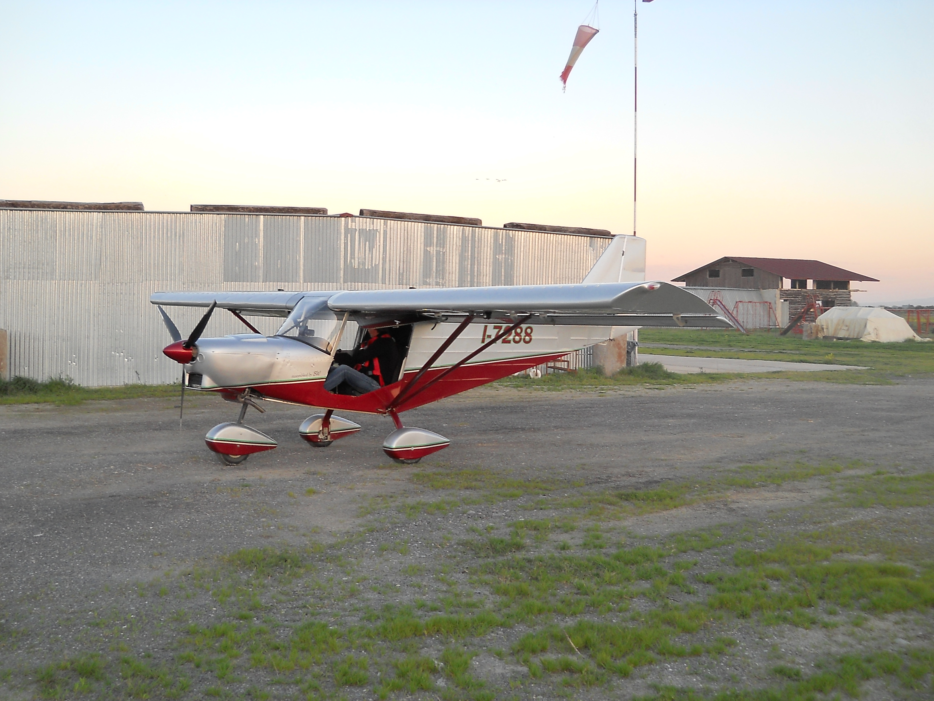 A Savannah Ultralight Aircraft standing on the Sibari camp (Italy), ready for the take-off